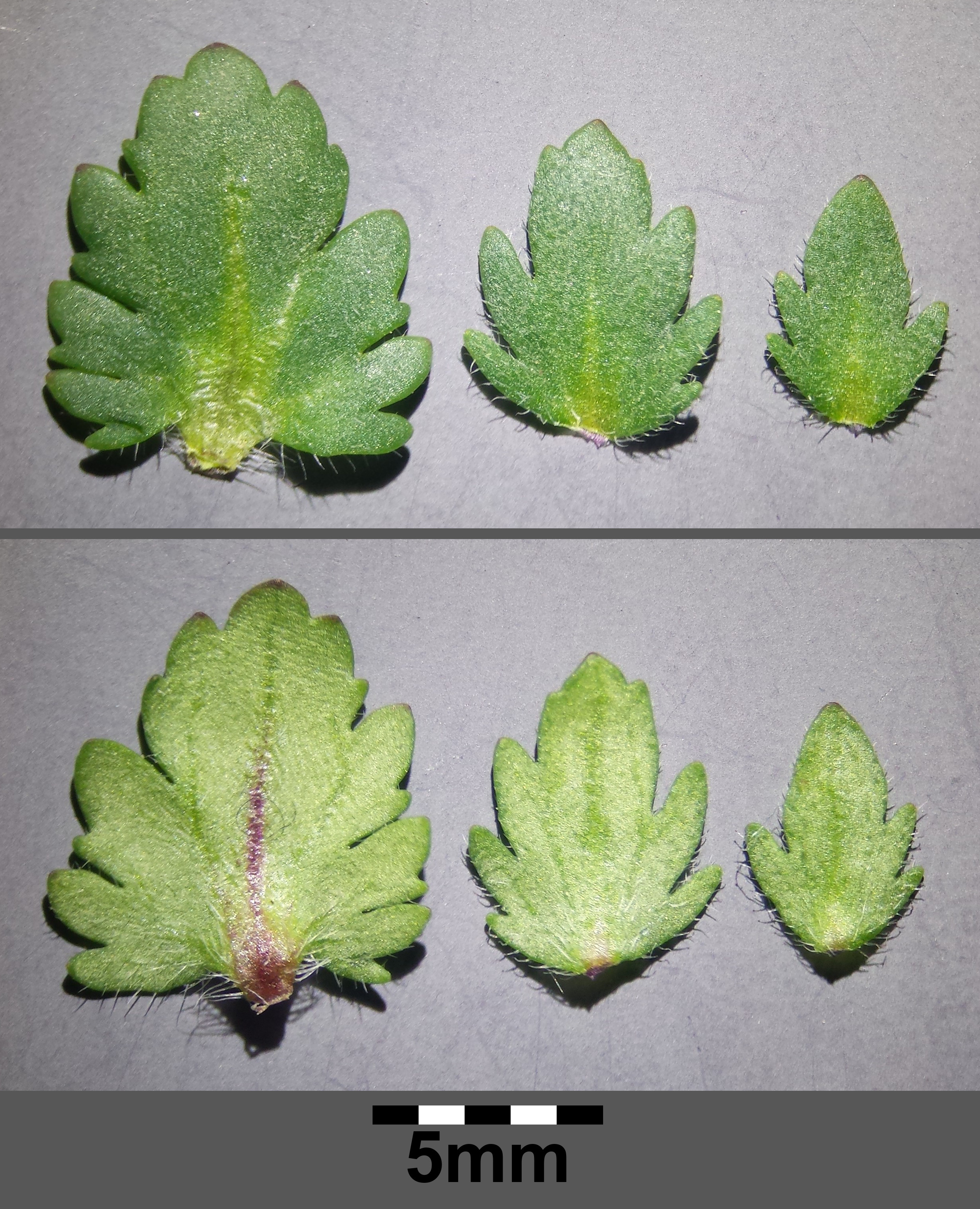 Bracts Above: top sides, below: bottom sides Taxonym: Veronica praecox ss Fischer et al. EfÖLS 2008 ISBN 978-3-85474-187-9 Location: hollow way near Großebersdorf, district Mistelbach, Lower Austria - ca. 230 m a.s.l. Habitat: upper edge of a hollow way